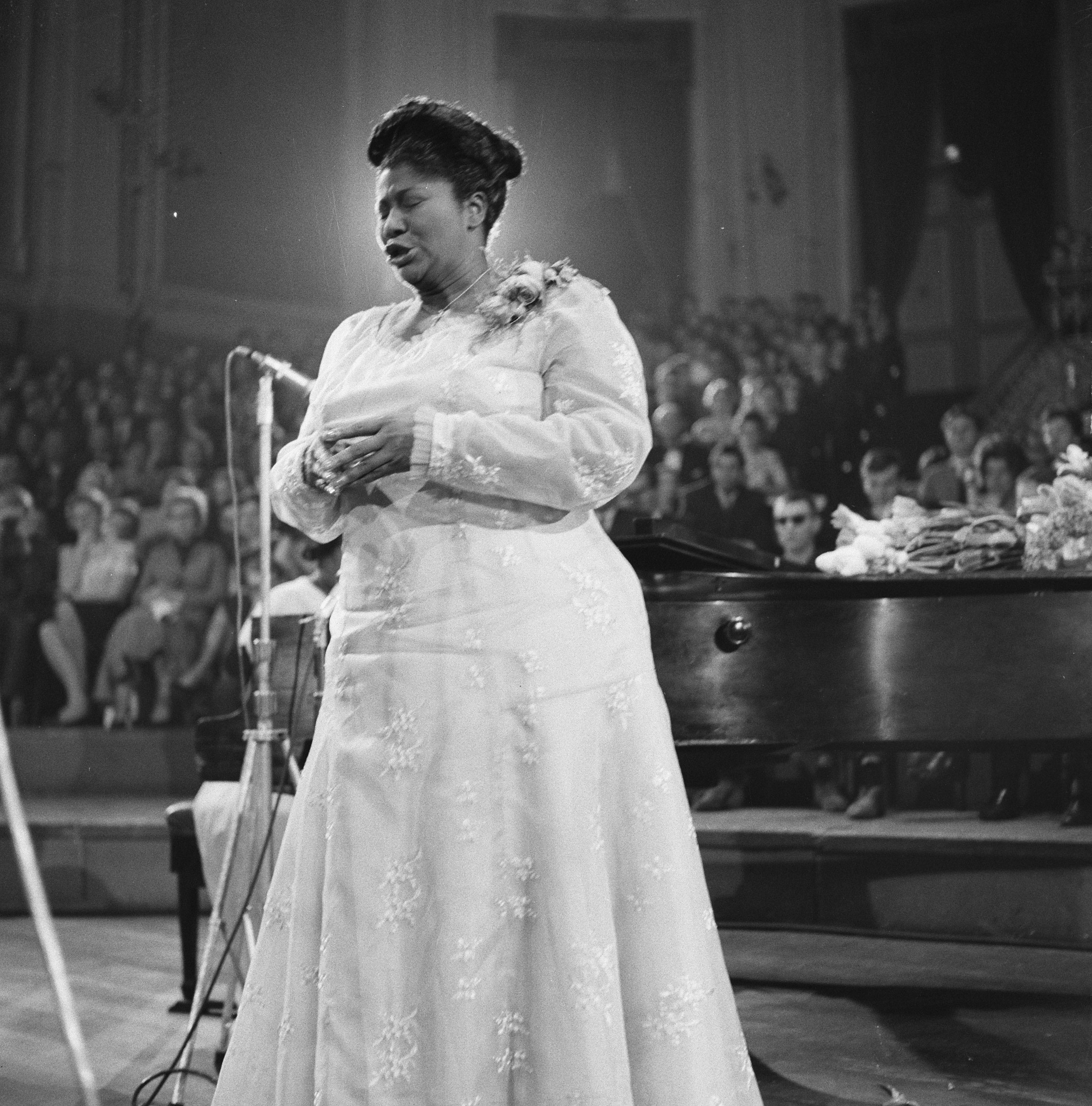 Mahalia Jackson in concert, Concertgebouw Amsterdam (the Netherlands), 23 April 1961